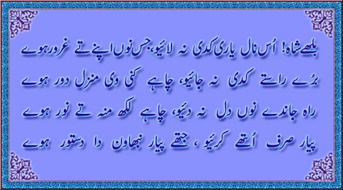 poetry of Bhulay Shah